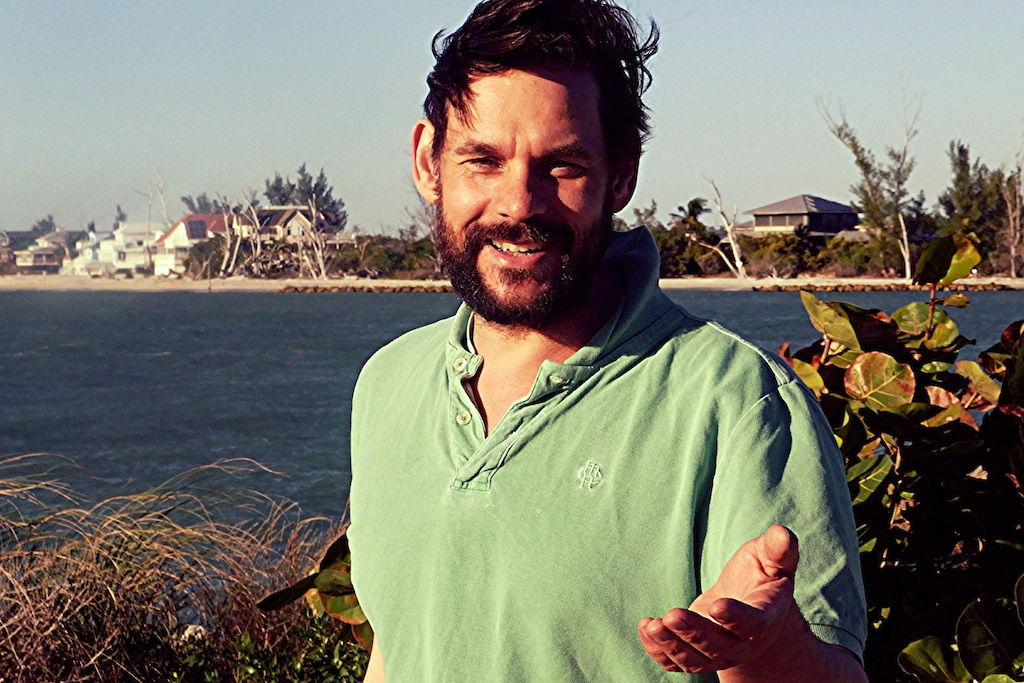 Alexander Beyer at Redfish Pass (Capiva, FL)